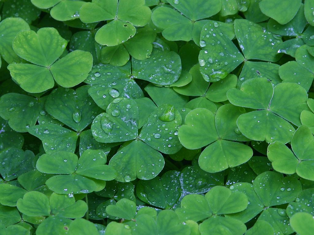 Leaves of an Oxalis sp. plant in a deer park in Ireland.